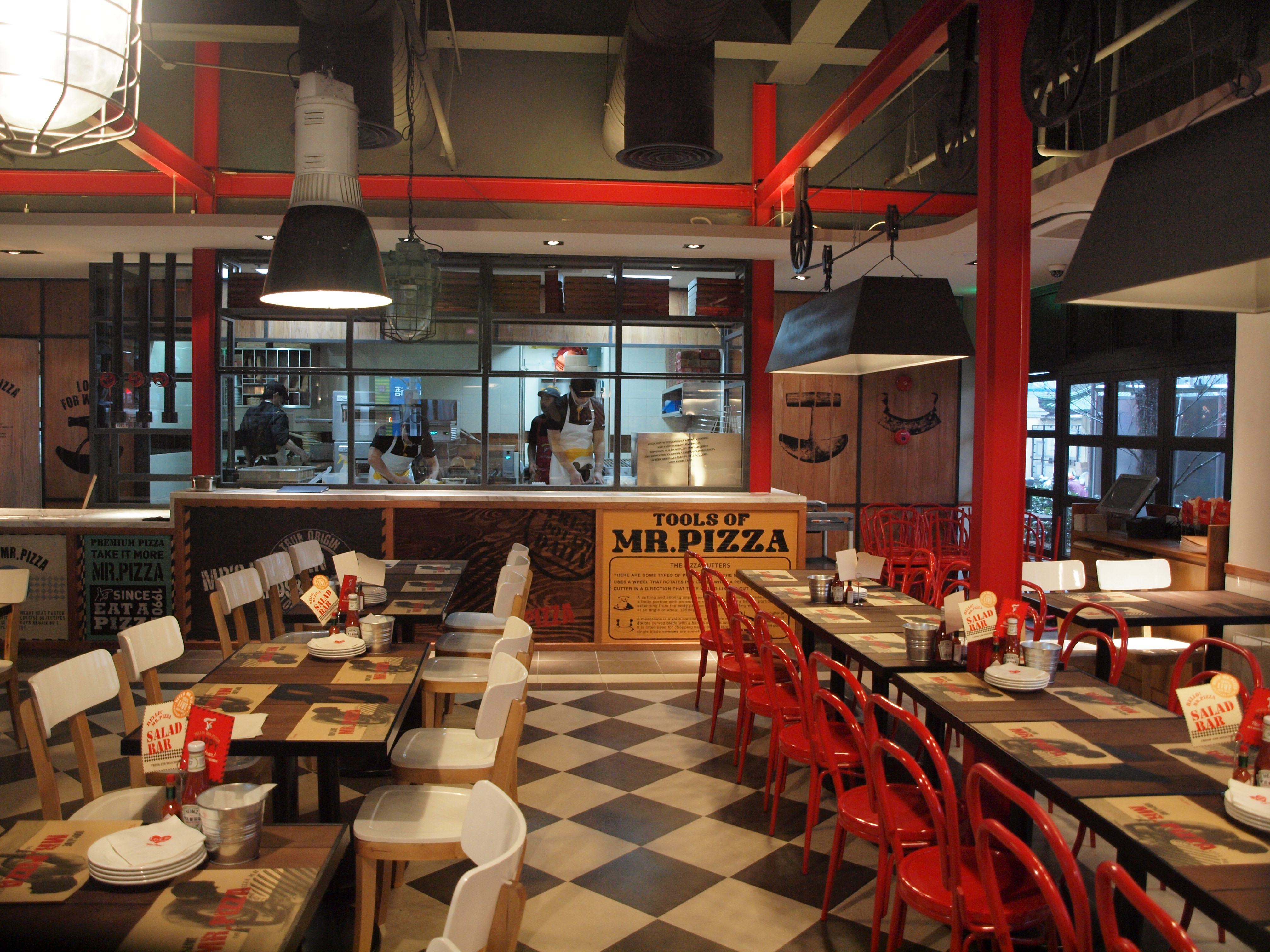 2013 SHANGHAI FUZHONLU STORE